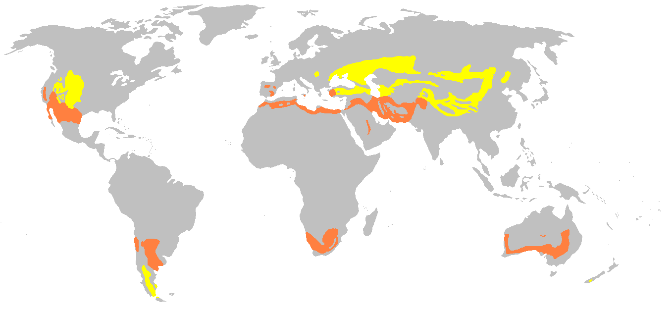 Map of steppes in the world according to C. Troll & K.-H. Paffen Cool temperate climate of steppes Subtropical steppic warm temperate climate